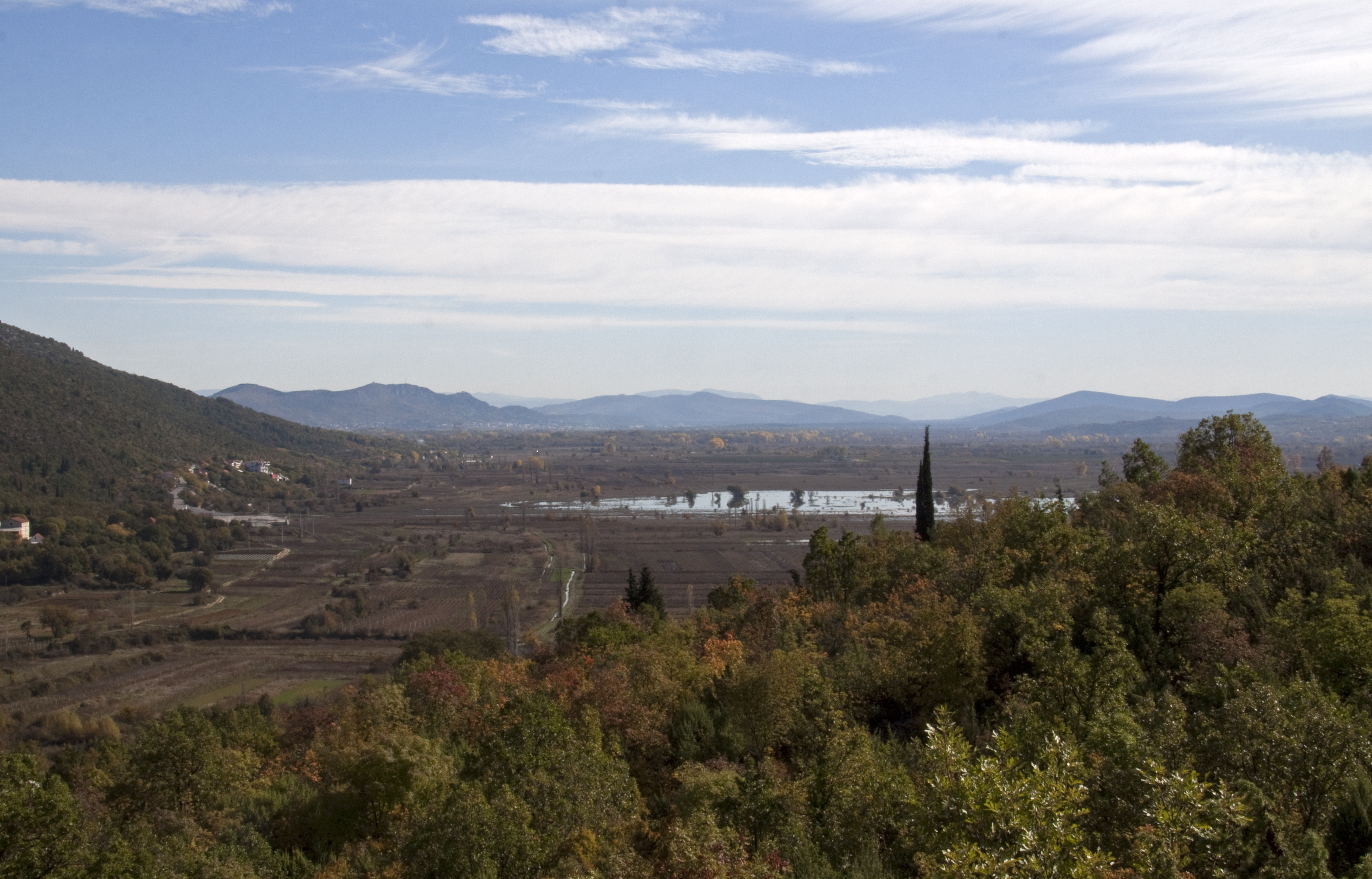 Looking back towards Vitina 2